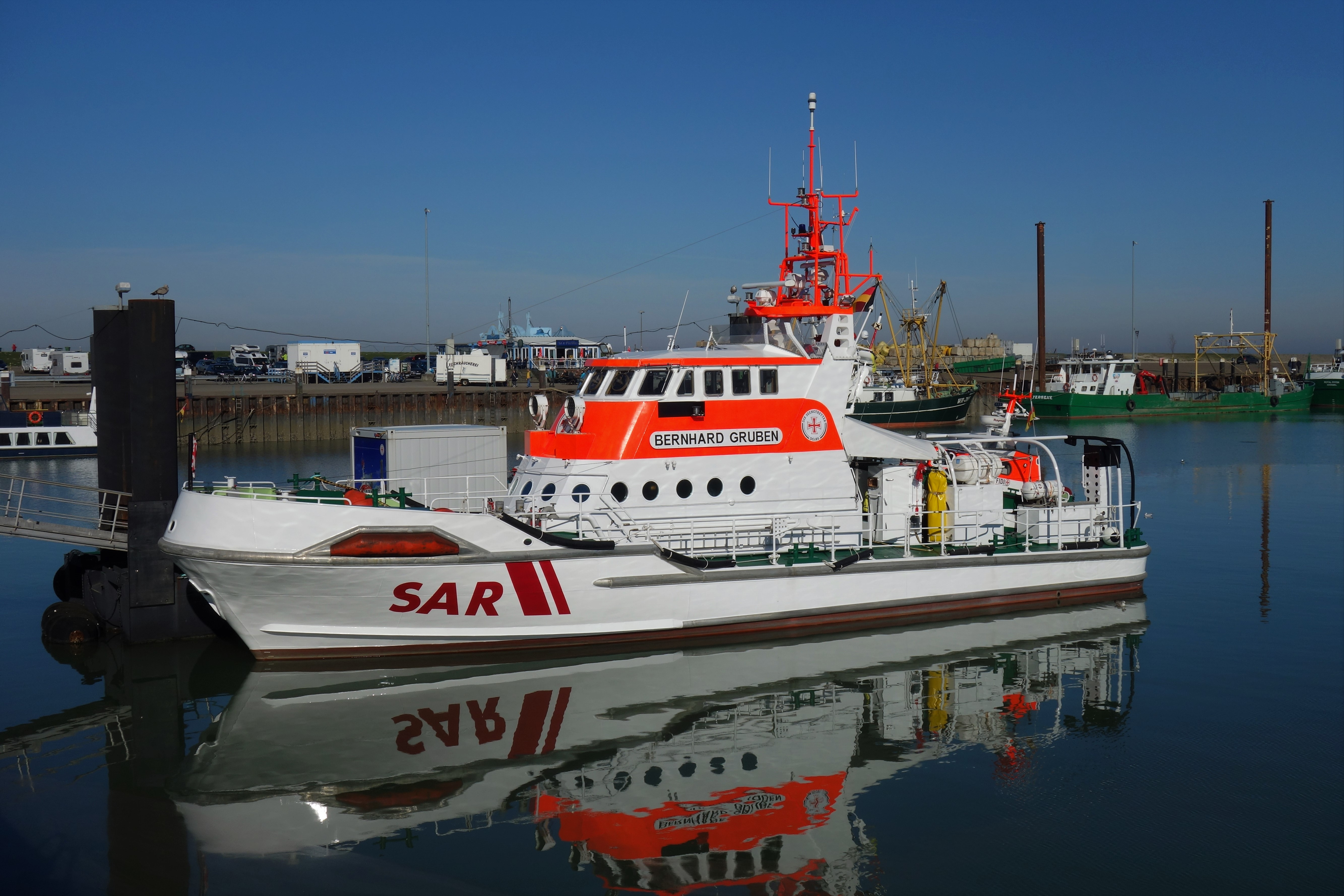 Search and rescue lifeboat Bernhard Gruben moored in Hooksiel harbour